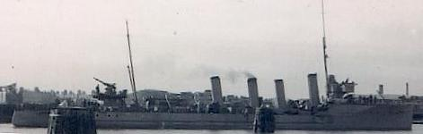 The Norwegian Draug class destroyer HNoMS Draug at Scapa Flow after being rearmed with more powerful anti-aircraft guns in the UK, but before the removal of her fore funnel around November 1940.